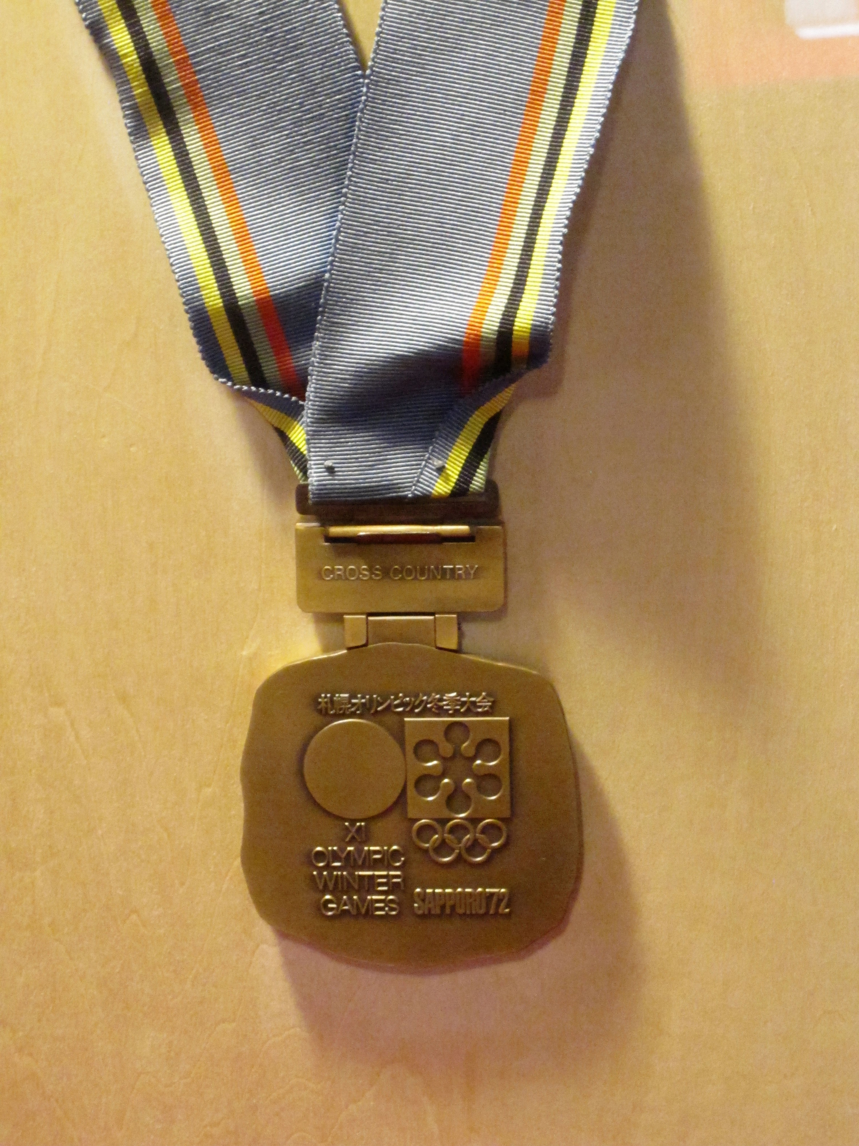 The back of 1972 Winter Olympics bronze medal, displayed in Japan Mint Saitama Museum.